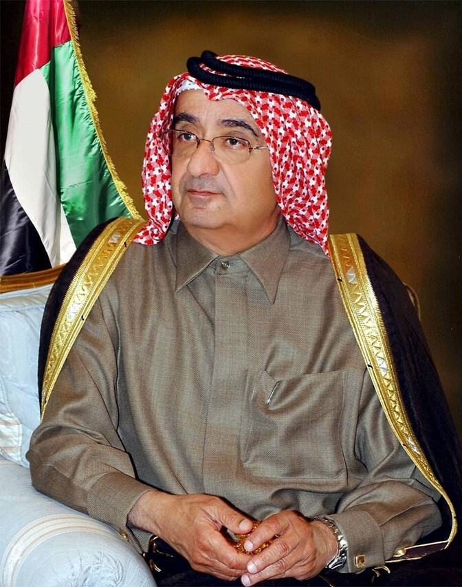 Maktoum bin Rashid Al Maktoum (1943 – 4 January 2006) (Arabic: مكتوم بن راشد آل مكتوم; Maktūm bin Rāshid Āl Maktūm), also referred to as Sheikh Maktoum (honorific) was the Vice President and Prime Minister of the United Arab Emirates (UAE) and the emir (ruler) of Dubai.